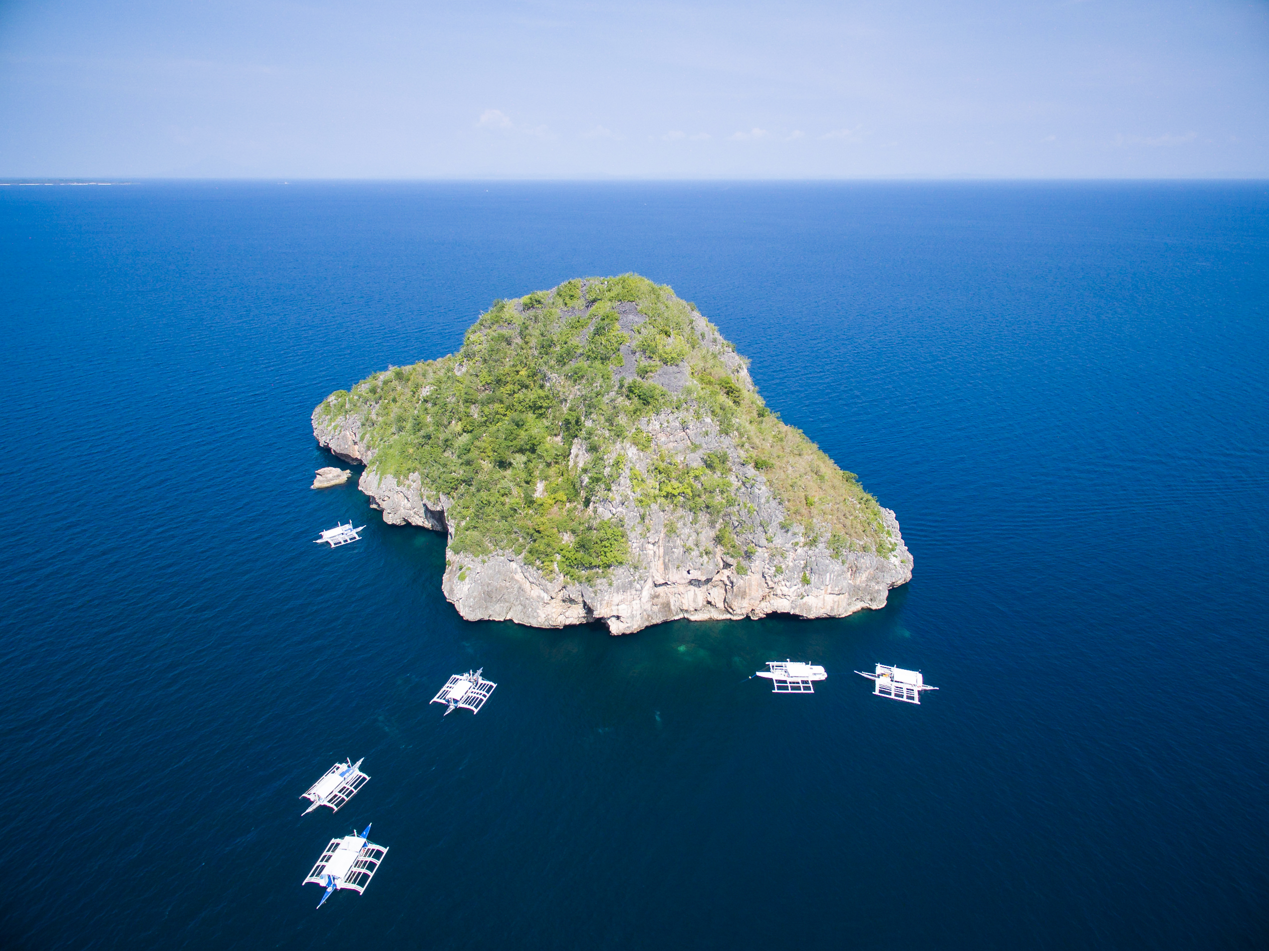 Gato Island aerial photo